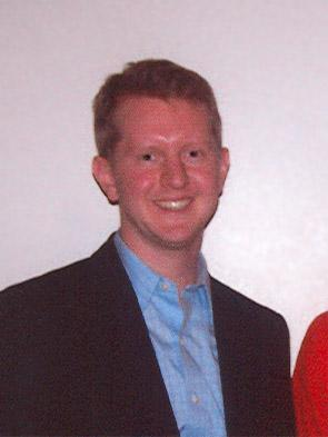 Jeopardy! contestant and 74-time champion Ken Jennings